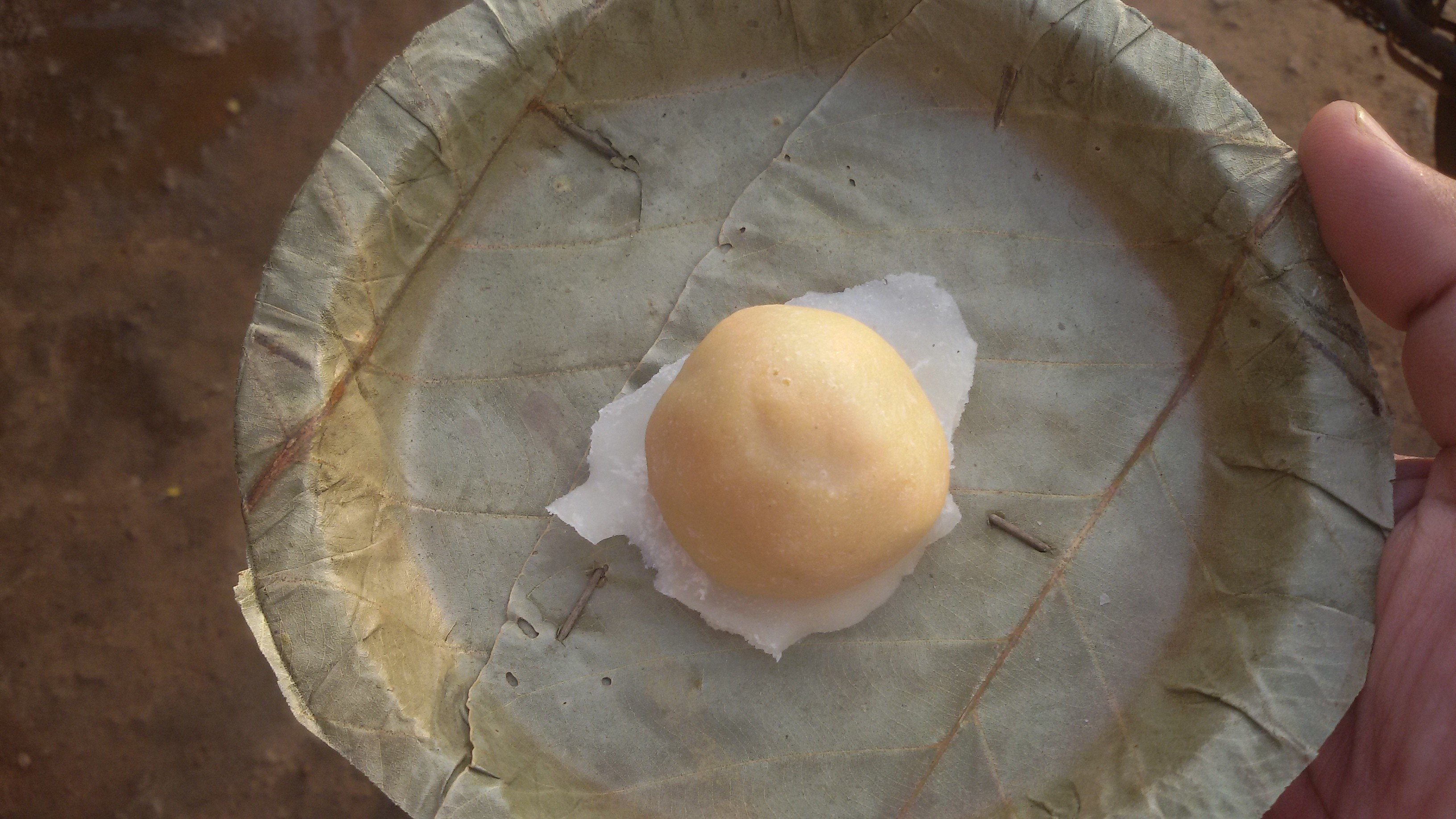 Image of mecha, a popular sweetmeat from Bankura district.